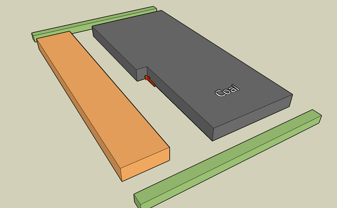 Longwall